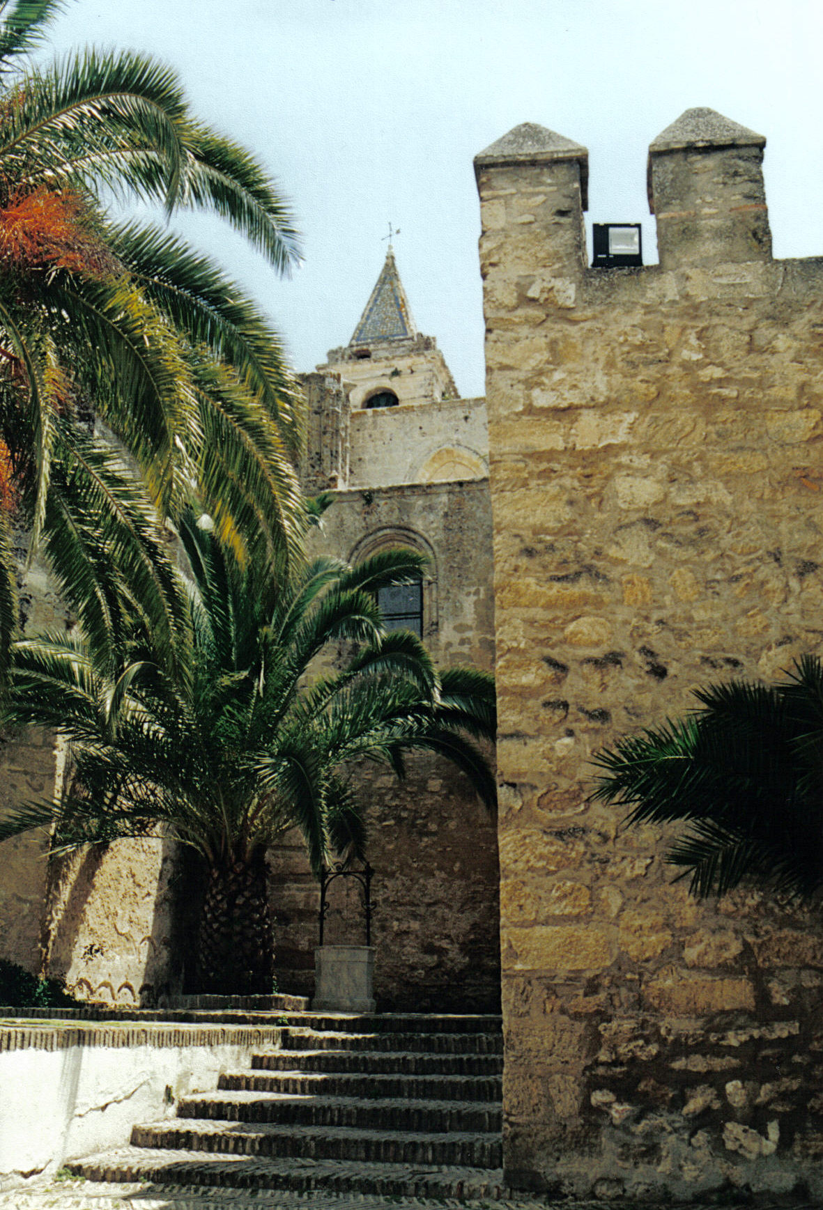 Church in Vejer de la Frontera, Spain.